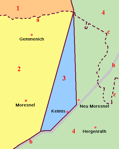 Schematic map of the location and surroundings of Neutral Moresnet. Features: 1. The Netherlands (as of 1830)*, province of Limburg 2. Belgium (as of 1830)*, province of Liège 3. Neutral Moresnet (1816–1919) 4. Prussia, Rhine Province a. The Dutch-Belgian border (as of 1843)* b. The Aachen–Liège road c. The present-day German-Belgian border (as of 1919)# (*) Territories (1) and (2) were joined from 1815 until 1830 as the united Kingdom of the Netherlands. In 1830, Belgium seceded, which was acknowledged by the Dutch in 1839. The border between the two countries was formally determined in 1843. (#) In 1919, Belgium received bilingual Moresnet and the part-Germanophone, part-Francophone East Cantons as compensation for damages incurred in World War I. Since then, all territories marked (2), (3) and (4 west of c) have been part of Belgium, except for a brief period in World War II when Germany (re-)annexed Moresnet and the East Cantons. The map was hand-drawn by Arjan de Weerd, who releases it into the public domain, provided he is credited whenever the image is (re)used.